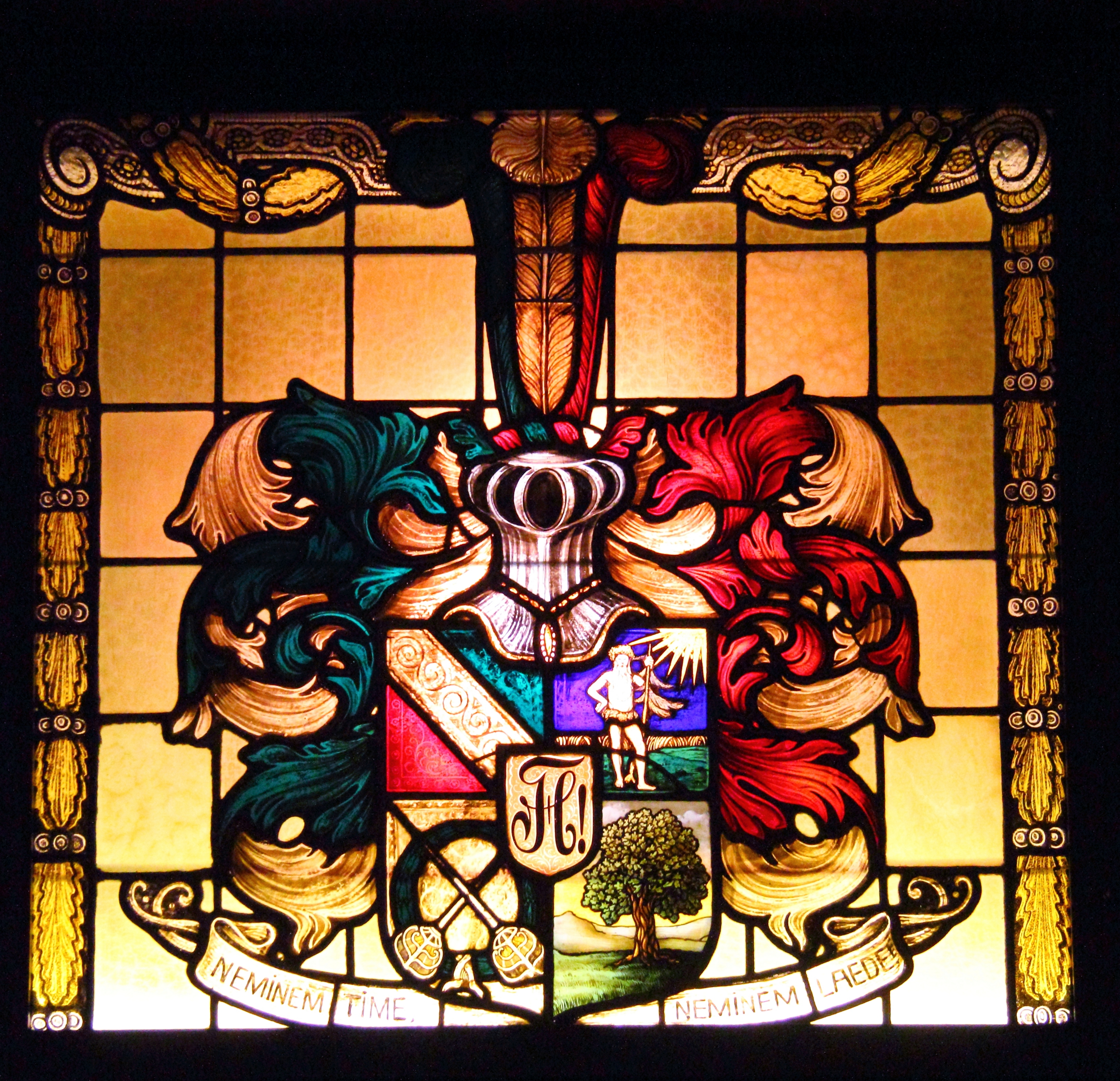 Braunschweig: house of student fraternity Corps Teutonia-Hercynia, Gausstrasse 18, 38106 Braunschweig, coat of arms of fraternity painted on glass